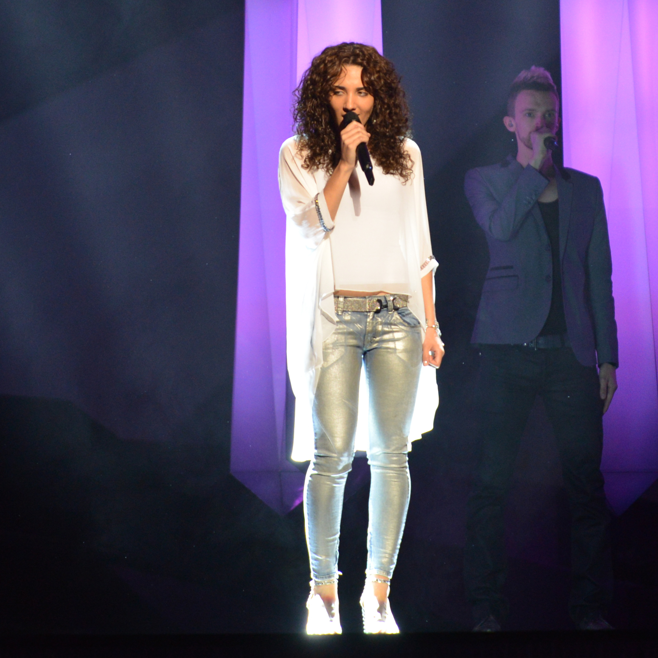 Natália Kelly representing Austria with the song "Shine" during the first dress rehearsal of the first semi final of the Eurovision Song Contest 2013 in Malmö. (Help translate this text)